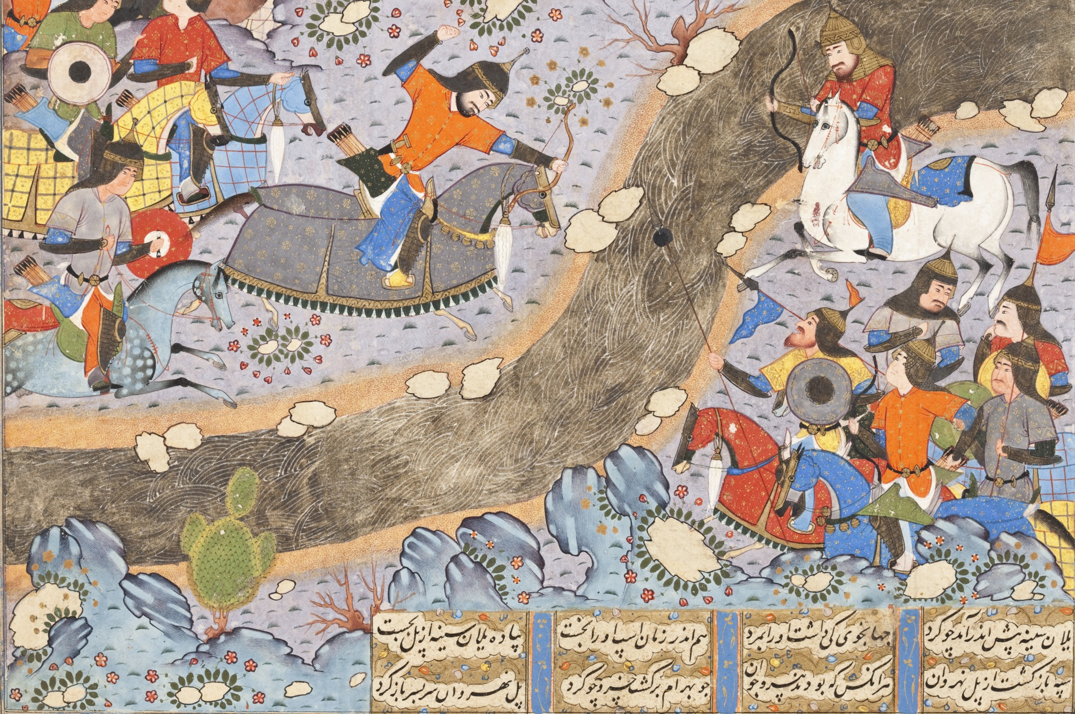 Iran, Shiraz, circa 1560 Book: Shahnama (Book of Kings) of Firdawsi Manuscripts Opaque watercolor heightened with gold and silver on paper Purchased with funds provided by Camilla Chandler Frost and Karl H. Loring with additional funds provided by the Art Museum Council through the 2009 Collectors Committee (M.2009.44.3) Islamic Art